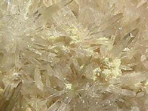 Photograph of a Celestine specimen from the Machow Mine, Poland taken by Dlloyd. Thin, transparent clear terminated celestine crystals, which measure up to 1.7 cm (0.7") in length, on bright yellow native sulphur.